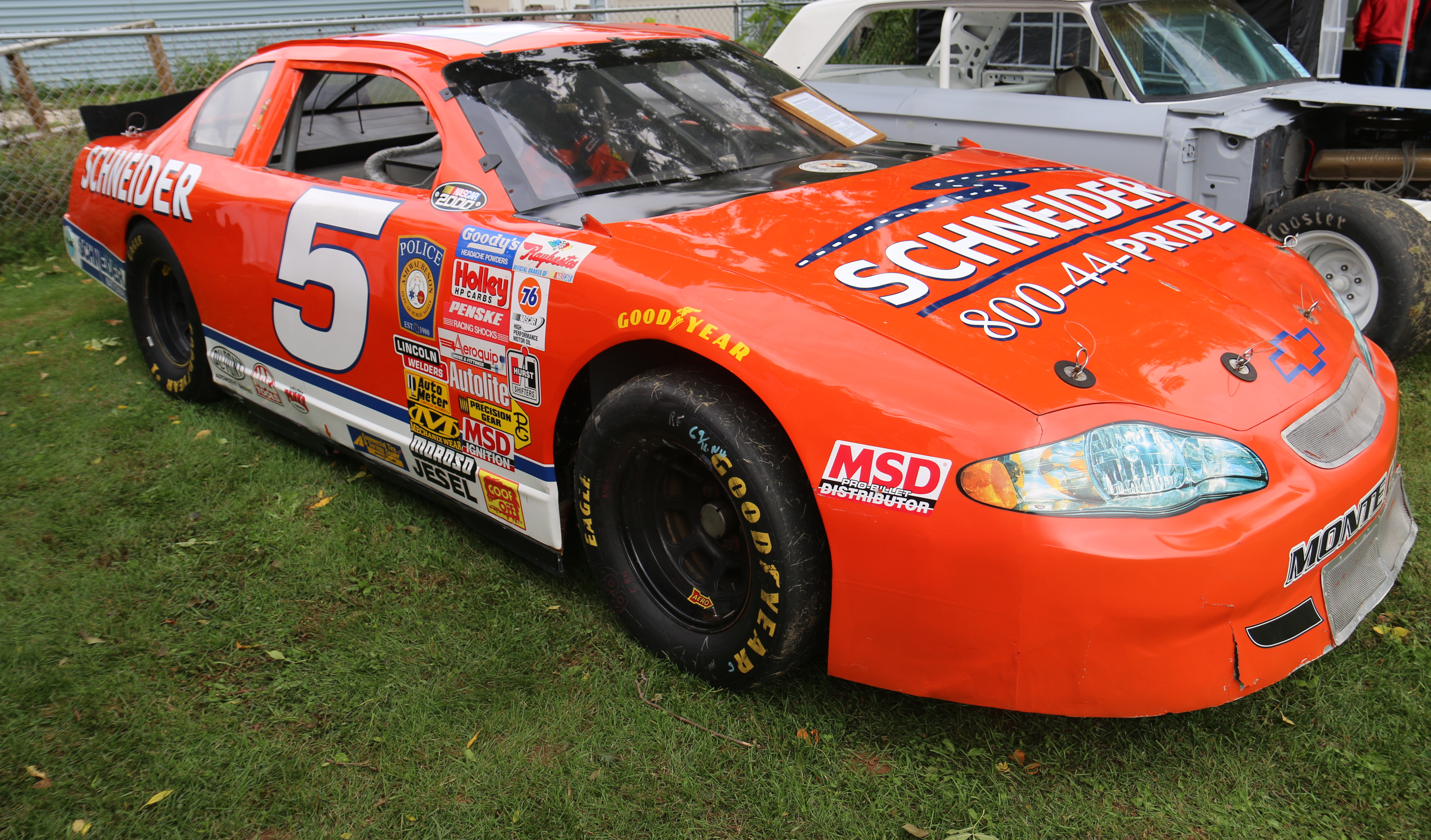 a 1988 Dick Trickle NASCAR Busch Grand National show car (made by Dennis Shoemaker Racing) at the Freedom Area Historical Society exhibit “The Evolution of the Race Car”